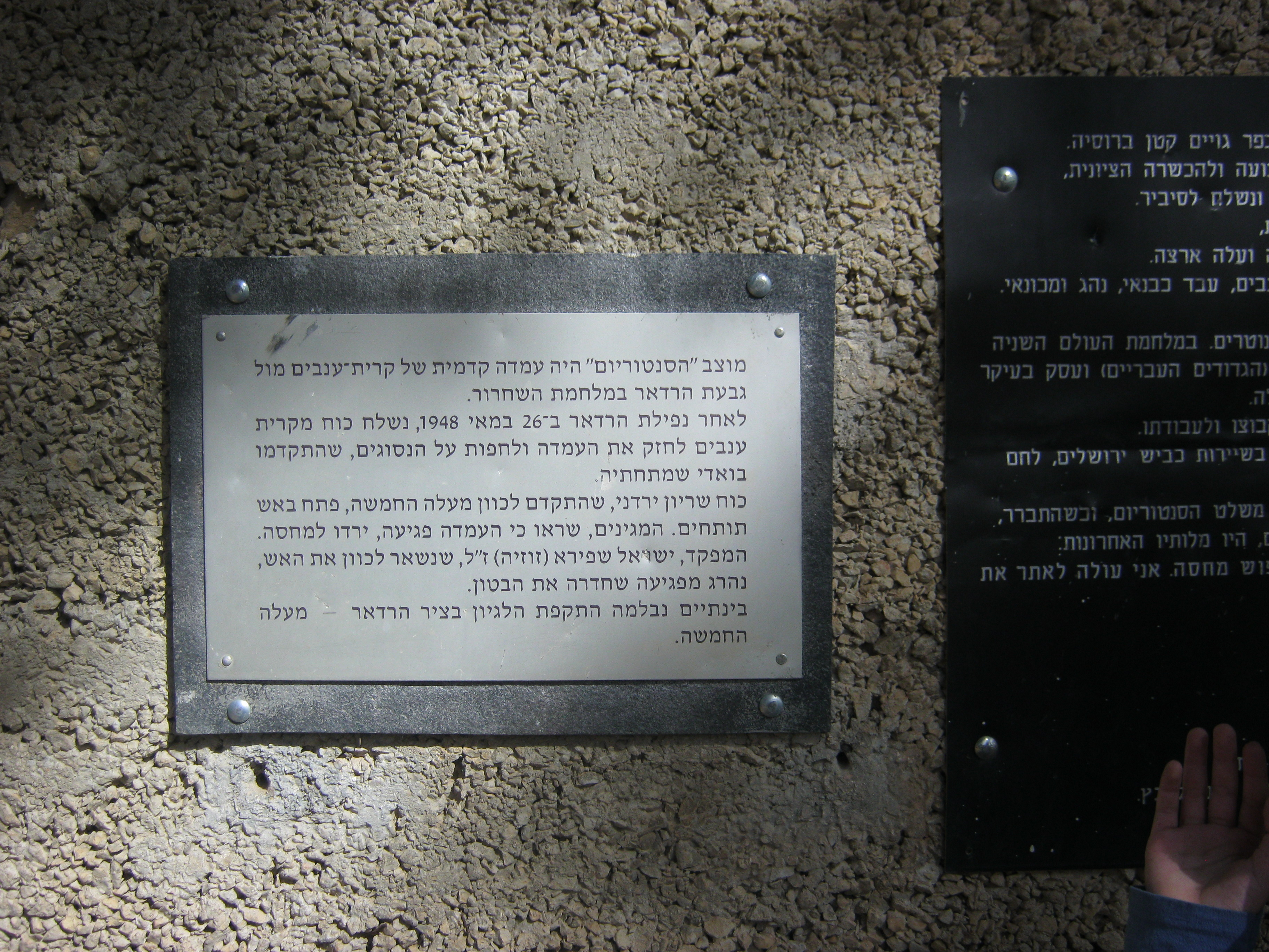 The Sanatorium Outpost (The Deer Memorial) near Kiryat Anavim